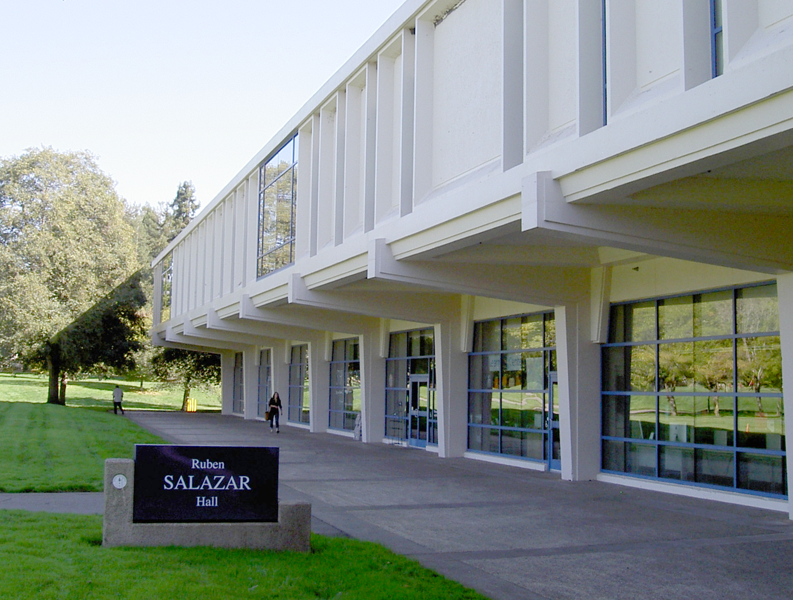 The north side of Ruben Salazar Hall on the Sonoma State Campus in Rohnert Park, California, USA